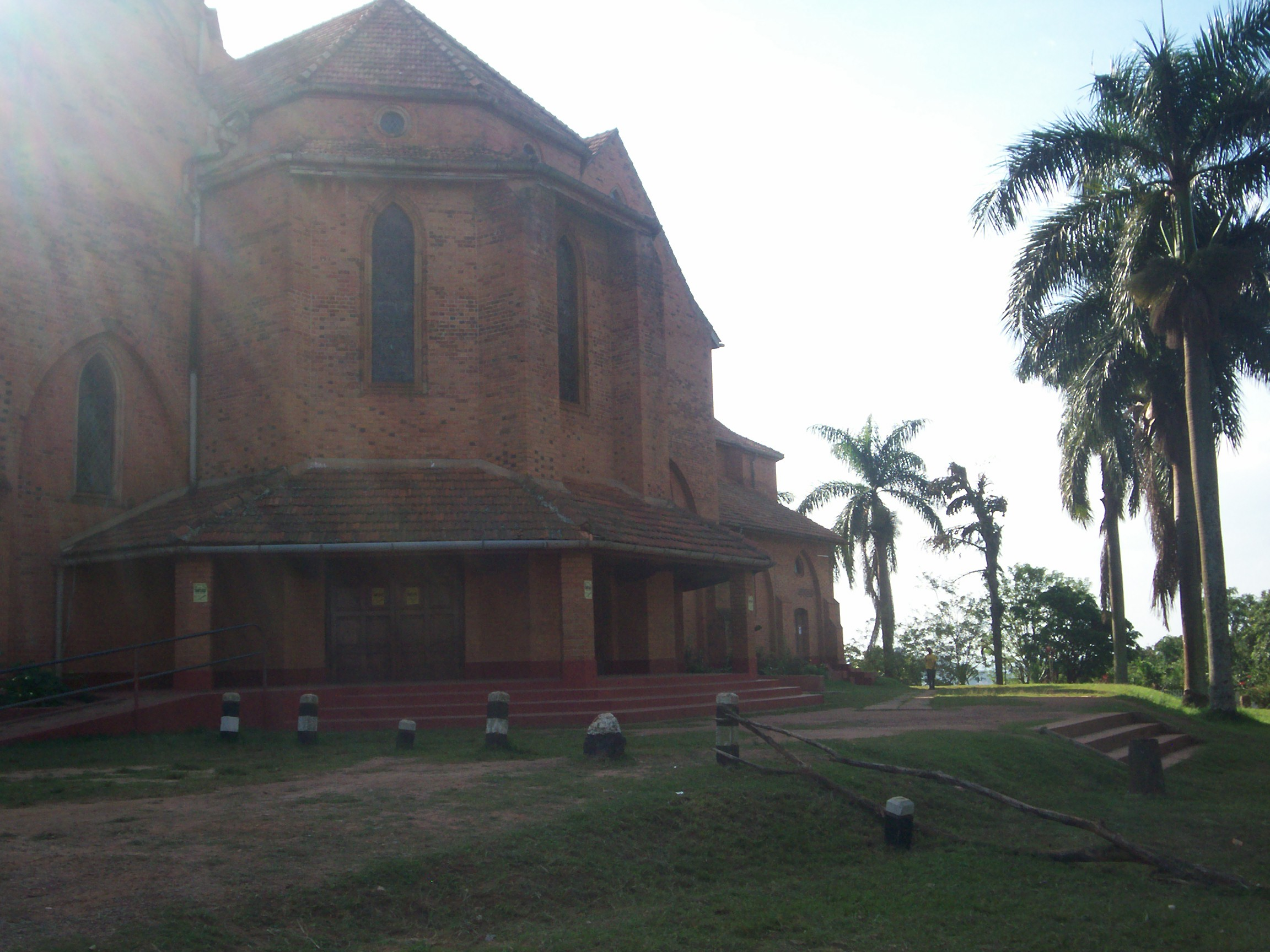 Church in Kampala, Uganda. This is the largest Protestant church in the area.